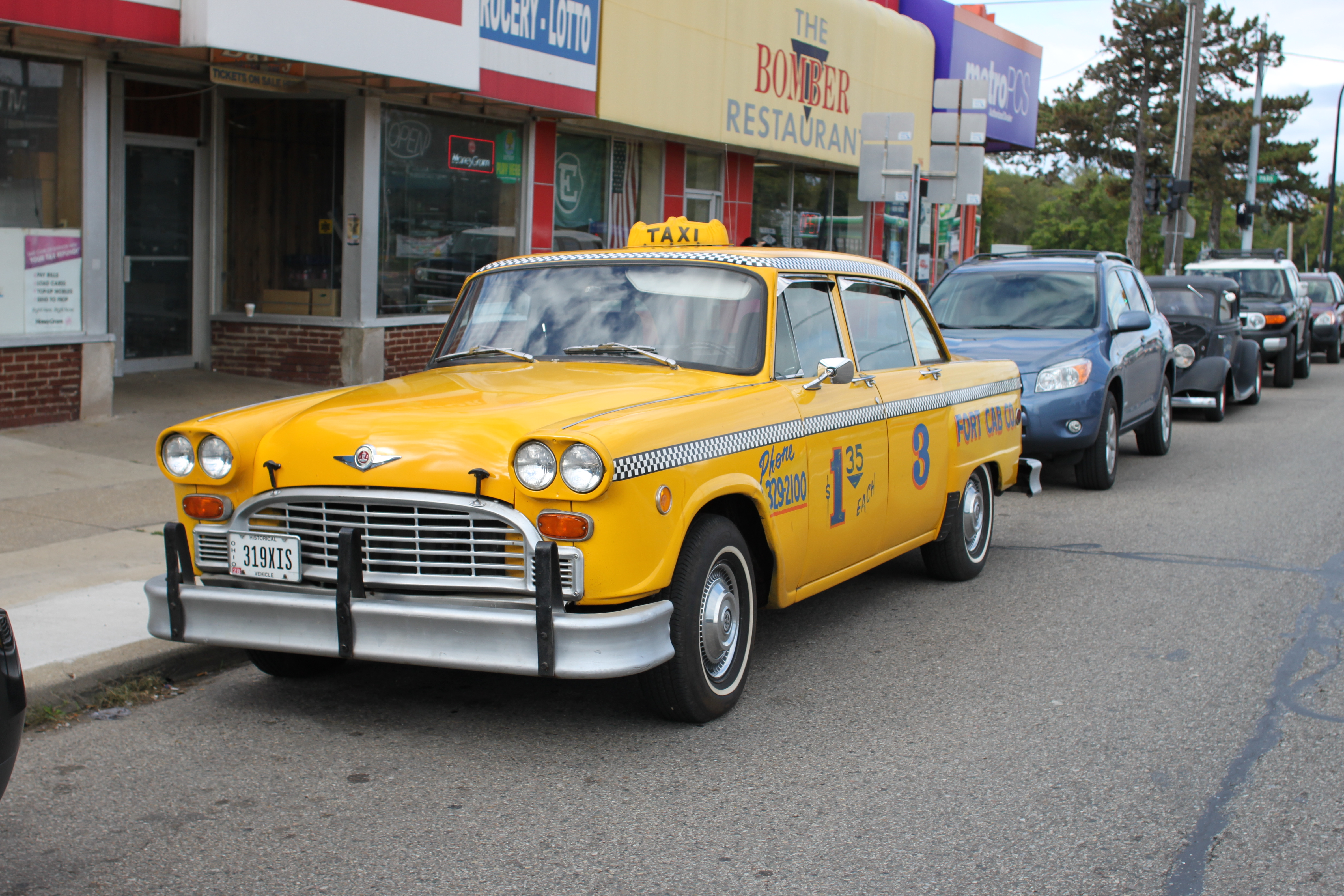 Vintage Checker cab in front of the Lucky Two Party Store, 308 East Michigan Avenue, Ypsilanti, Michigan.